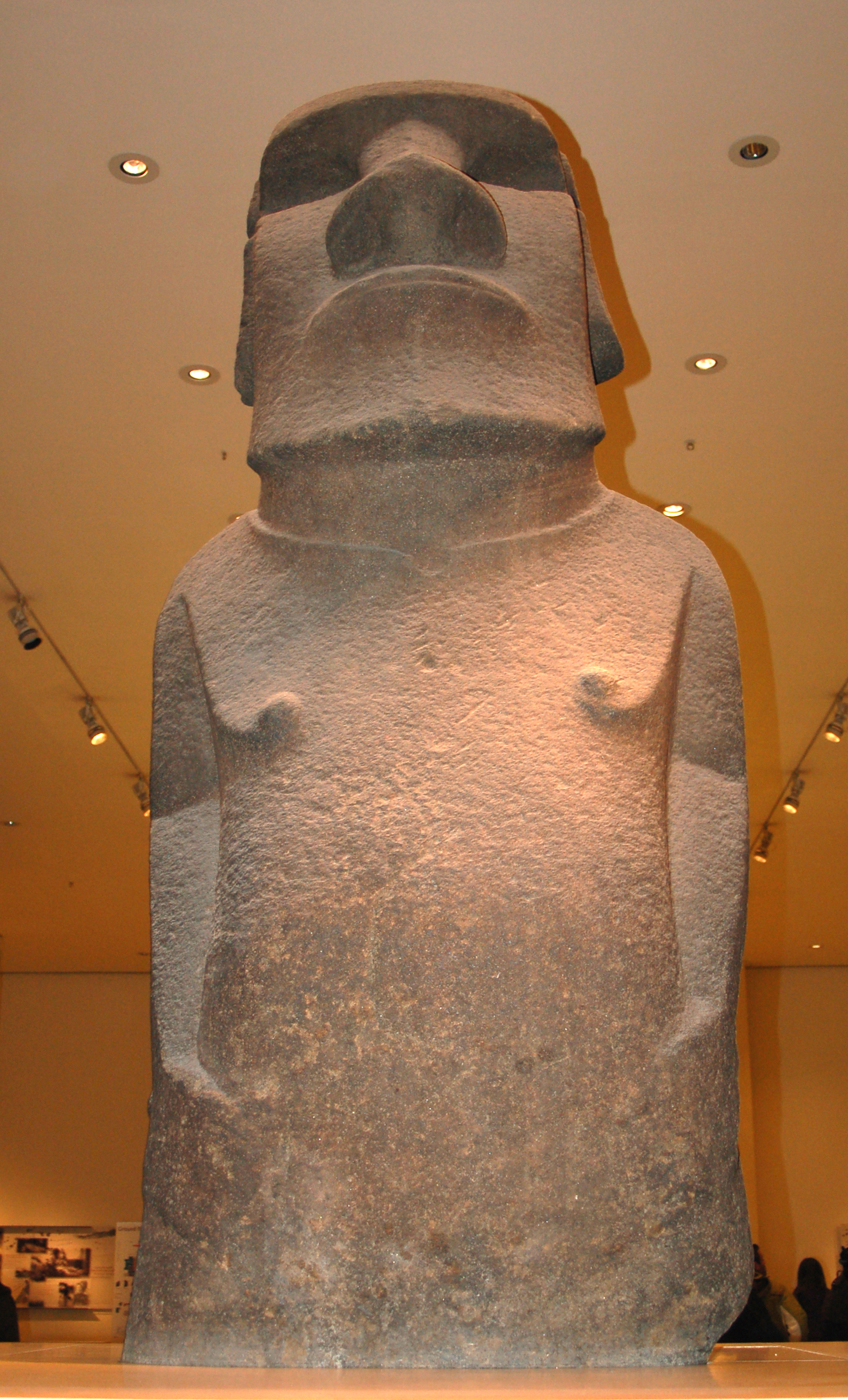 The Hoa Hakananai'a, a basalt moai (Easter Island statue) on display in the British Museum's Wellcome Trust Gallery, London